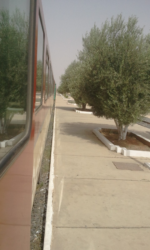 Nador-Fes train at Taoririt station